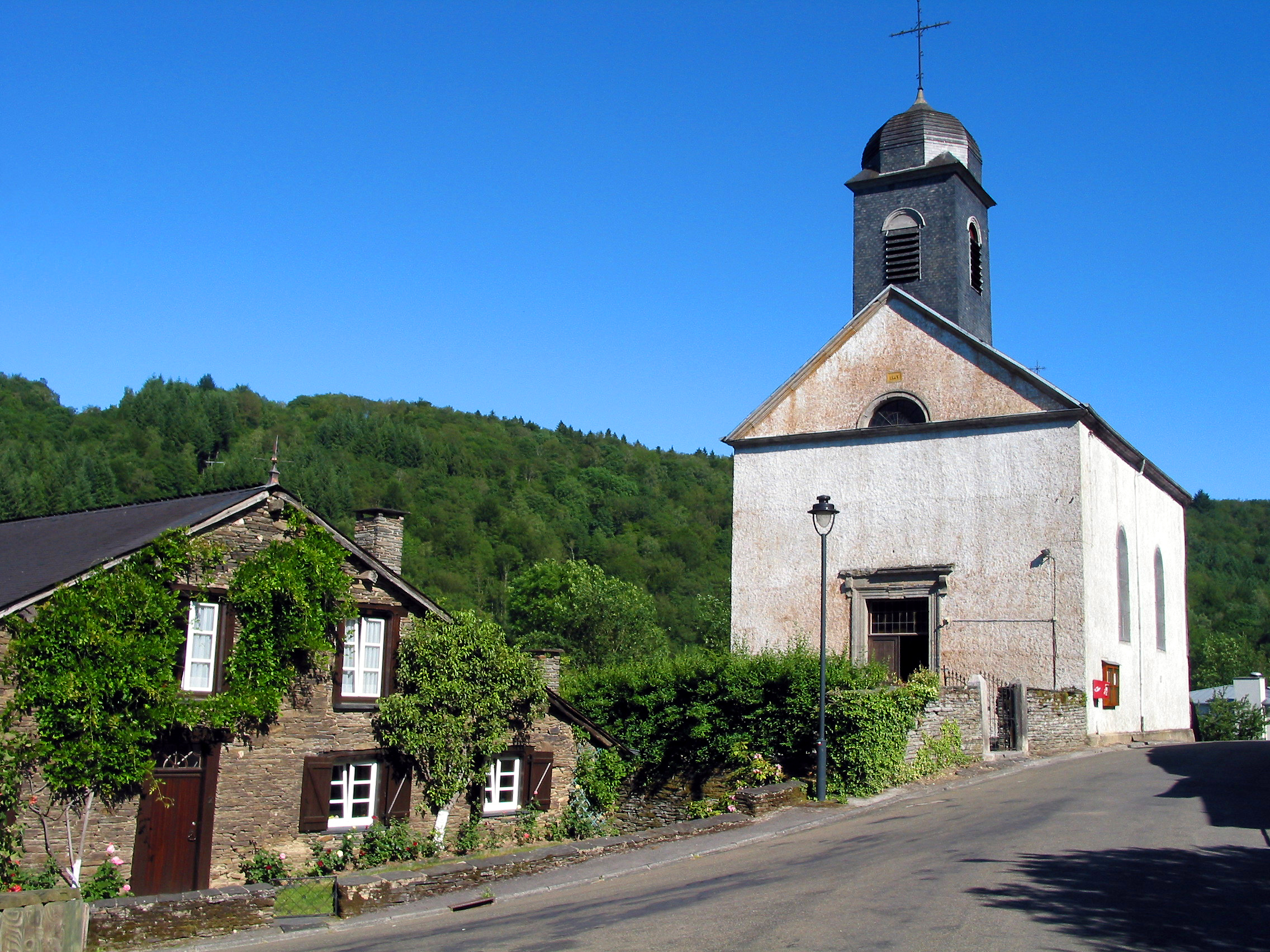 Frahan (Belgium), the church of the "Assomption de Notre-Dame" (1843).